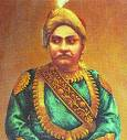 Nawab Khwaja Ahsanullah Source: Banglapedia Keeper of the original: Dhaka Nawab Family Used only in information/education purpose to illustrate the subject. No other images to illustrate the subject has been found. Low resolution and unsuitable for reproduction. Note: Please, upolad a better and more suitable image if you can.